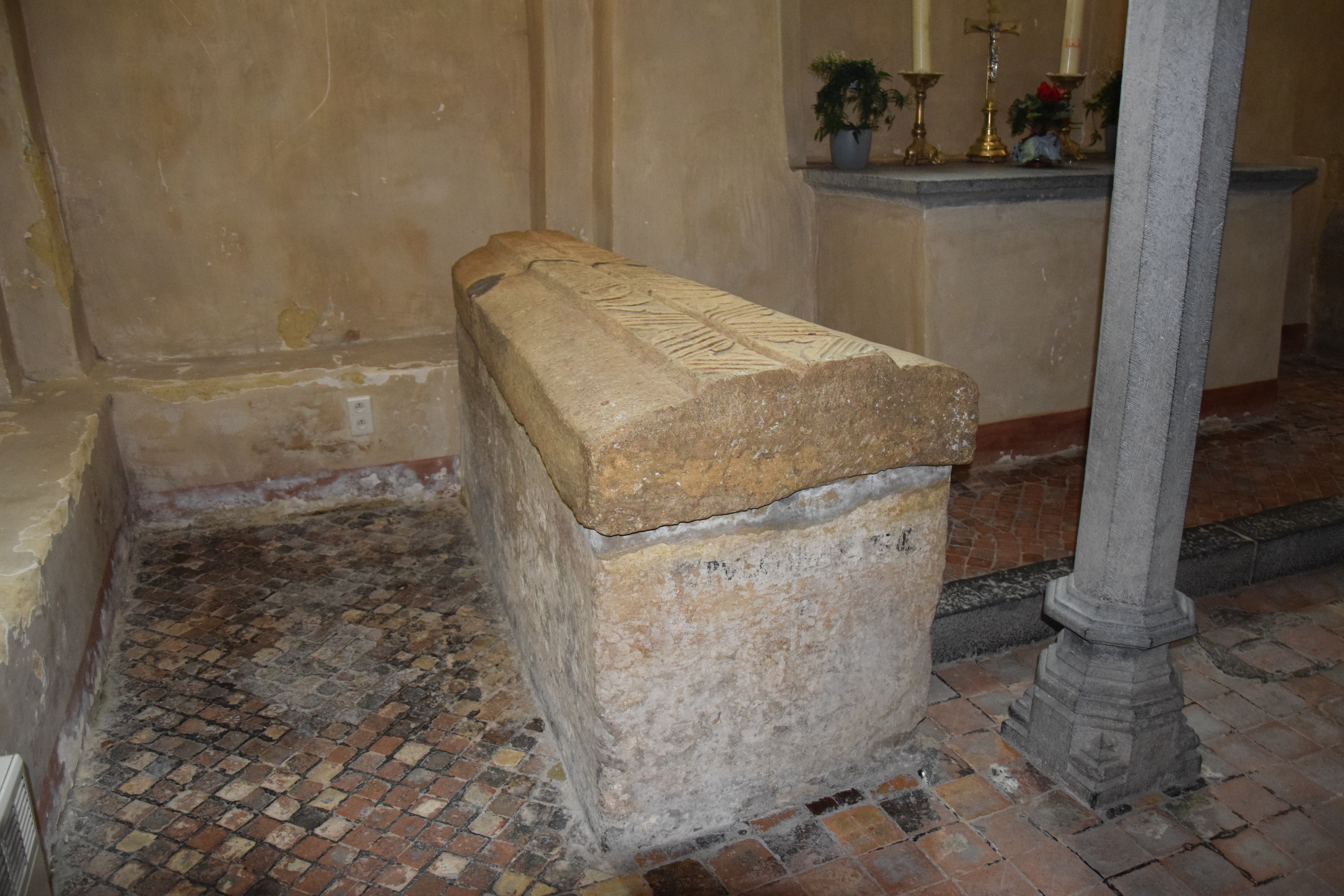 Collégiale Saint-Ursmer (Lobbes) - Crypte with the sarcophagus of Saint Ursmar, 7th/8th-century abbot of Lobbes.